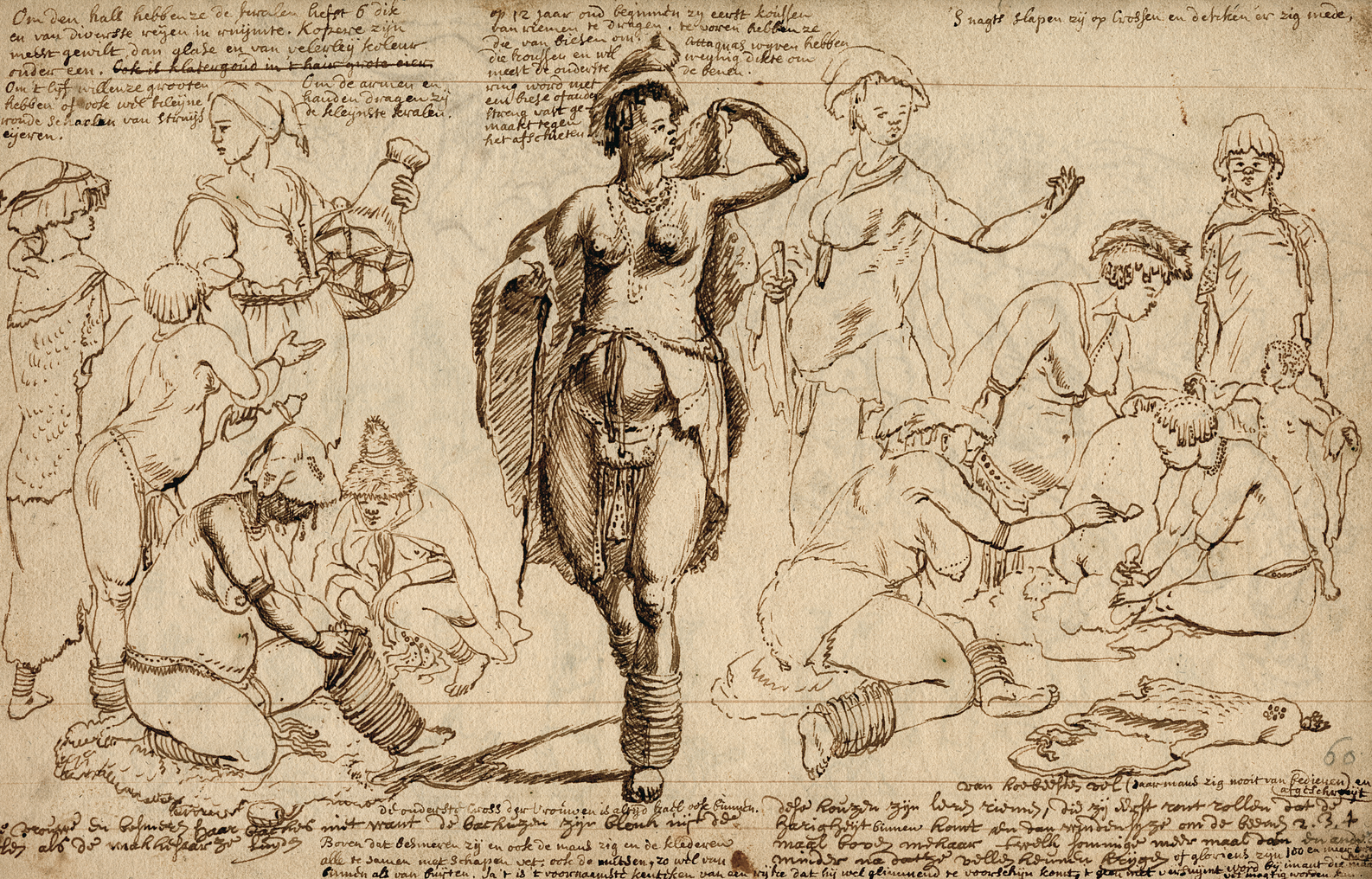 This view of a group of Khoi women in various costumes and poses, with a woman colonist holding a container, is from a set of 27 drawings on 15 sheets that was discovered in the National Library of South Africa in 1986. The drawings are important for presenting the earliest realistic depictions of the Khoikhoi, the original inhabitants of the Western Cape. The annotations describe Khoi dress and ornamentation, explaining that Khoi women wear several strings of beads around the neck, with copper beads the most favored. The note remarks on the Khoi custom of smearing the body and clothing with fat, a practice that the European colonists found repugnant but that was related to exposure to the sun for long periods in hot, dry conditions. “Indeed, it is the most important sign of a rich man that he appears shiny, and this is not neglected by anyone if he can get hold of some fat.” The dress of the colonist is of interest, and is similar to that of a maidservant drawn by Vermeer around 1659. Much information about the Khoikhoi is available from early European accounts, but few illustrations exist. The drawings in the collection were made in situ and, unlike most early European depictions of the Khoikhoi, were never filtered through the eyes of European engravers. The artist most likely was a Dutchman, born in the 17th century, who was attached in some capacity to the Dutch East India Company and possibly en route to the Dutch East Indies or on his way back to the Netherlands when he visited the Cape. Evidence suggests that the drawings were made no later than 1713, and possibly a good deal earlier. Most of the drawings have annotations, in Dutch, made by another person, also unidentified, after 1730. Cape of Good Hope; Clothing and dress; Indigenous peoples; Khoikhoi (African people); Manners and customs; Netherlands--Colonies; Women